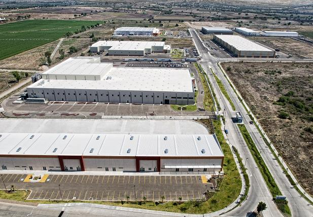 Parques Industriales